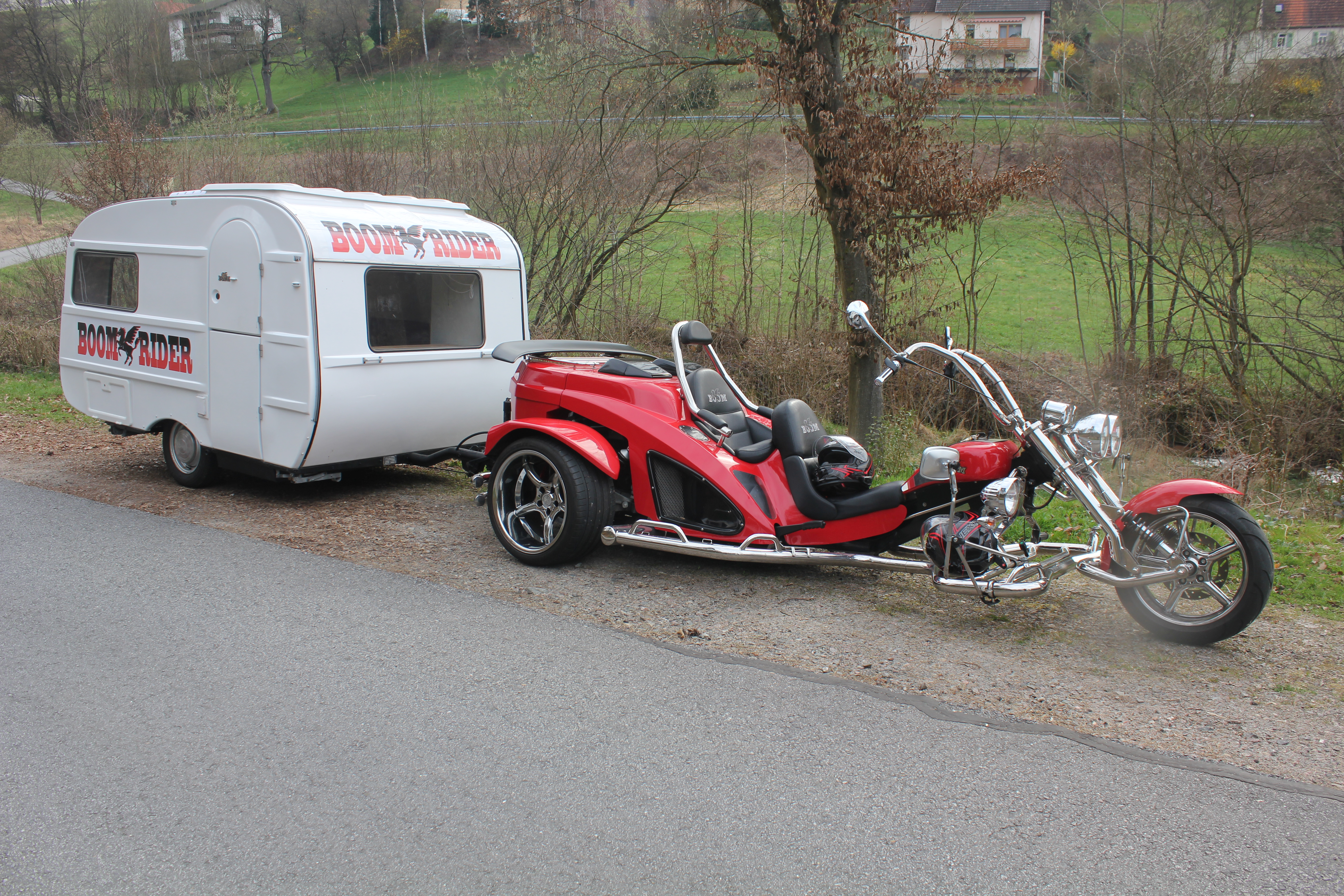 BOOM Trike with Trailer